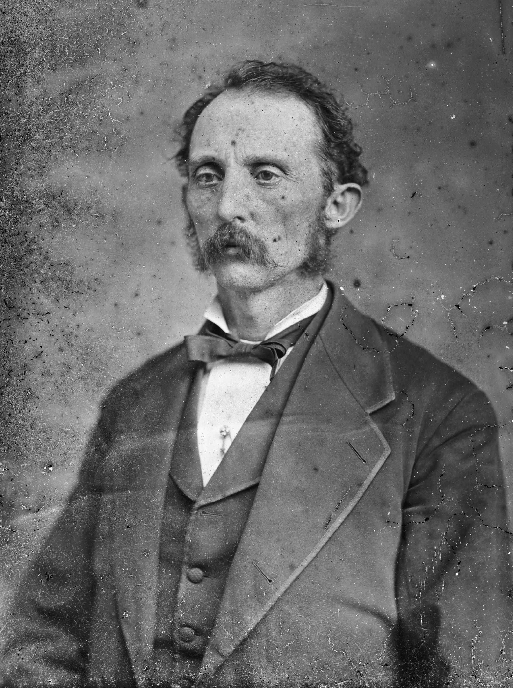 Thomas W. Bennett (territorial governor). Library of Congress description: "Bennett, Hon. Thomas W. Delegate of Idaho"